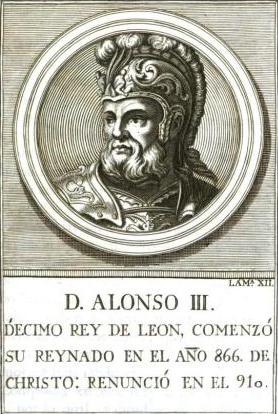 King Alfonso III the Great of Asturias